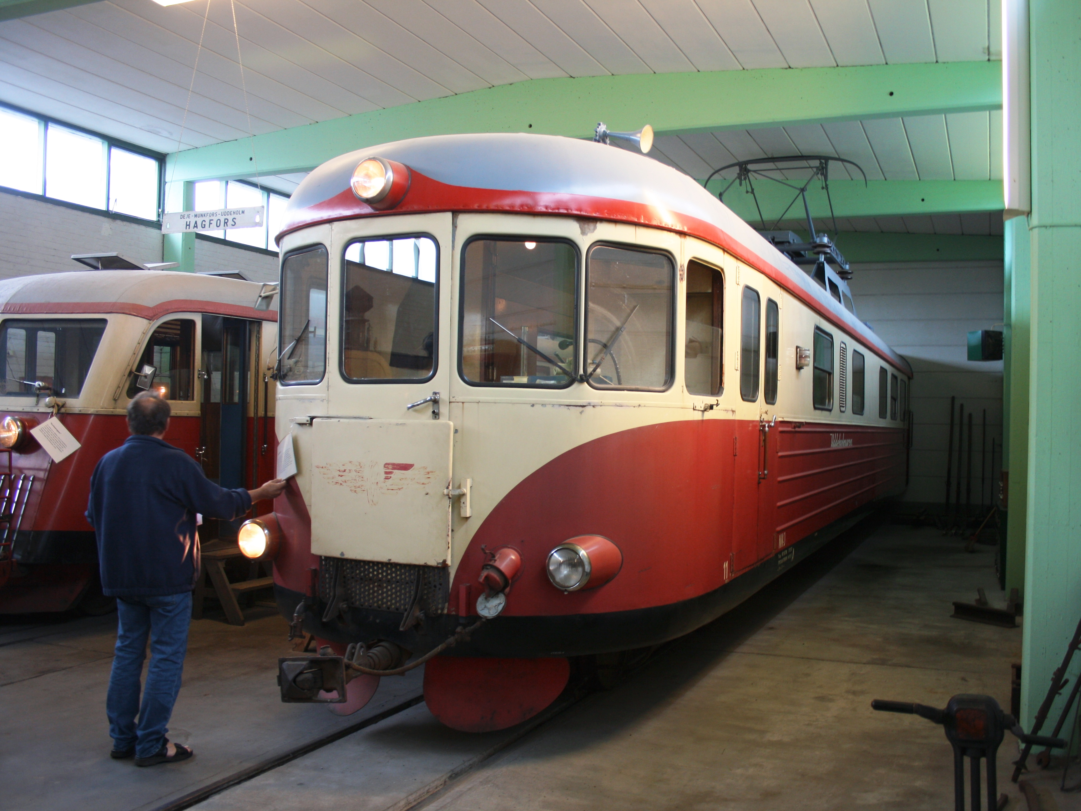 Hagfors, Sweden. Industry and Railway Museum, driving motor of "Uddeholmaren", a three-car, narrow gauge, electric multiple unit of Nordmark–Klarälvens Järnvägar.